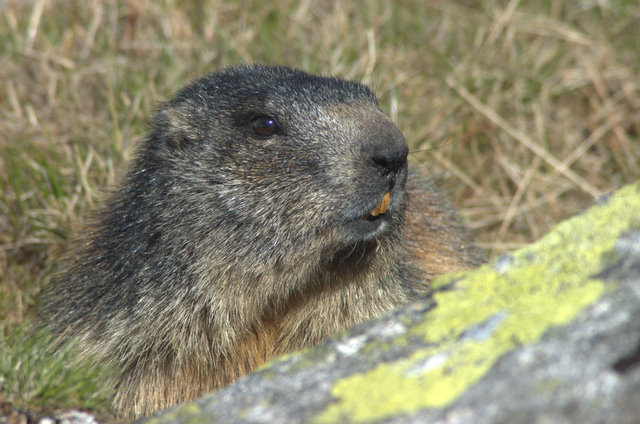 The portrait of M. marmota latirostris, Tatra Mountains